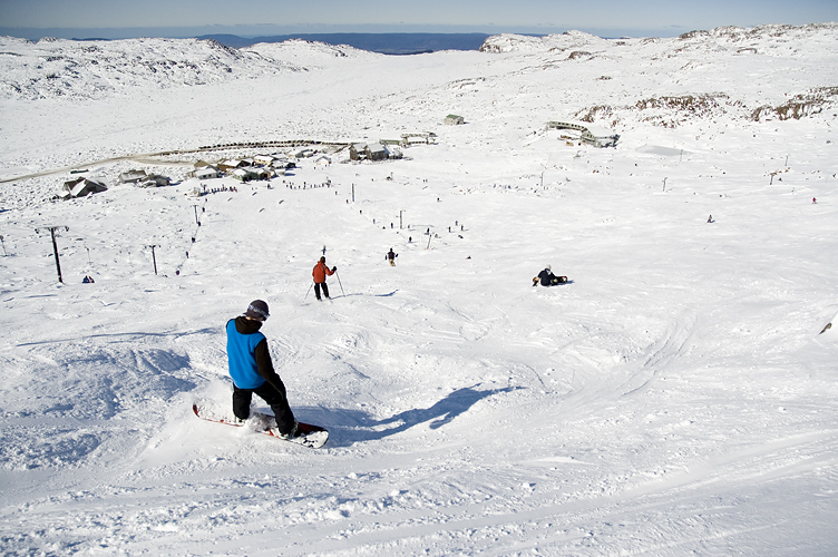 Photo of the summit ski run on Ben Lomond taken on the 12th of August 2005, showing good snow cover on the mountain. The ski village including huts, ski rental and inn can be seen below. Lauchlin Wilkinson (